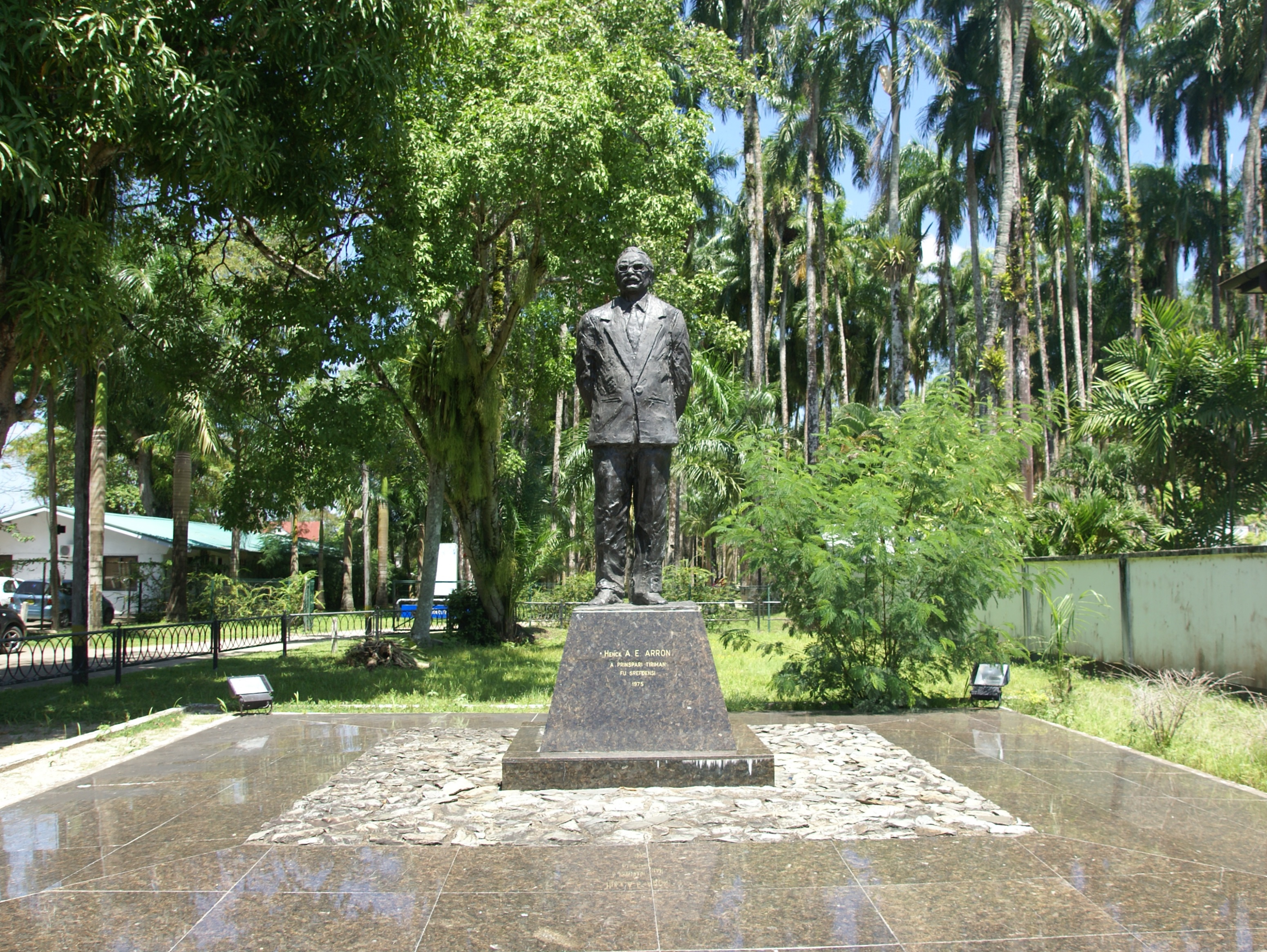 Statue of Henck Arron, Kleine Combéweg, Paramaribo, Surinam. By Erwin de Vries (2008).